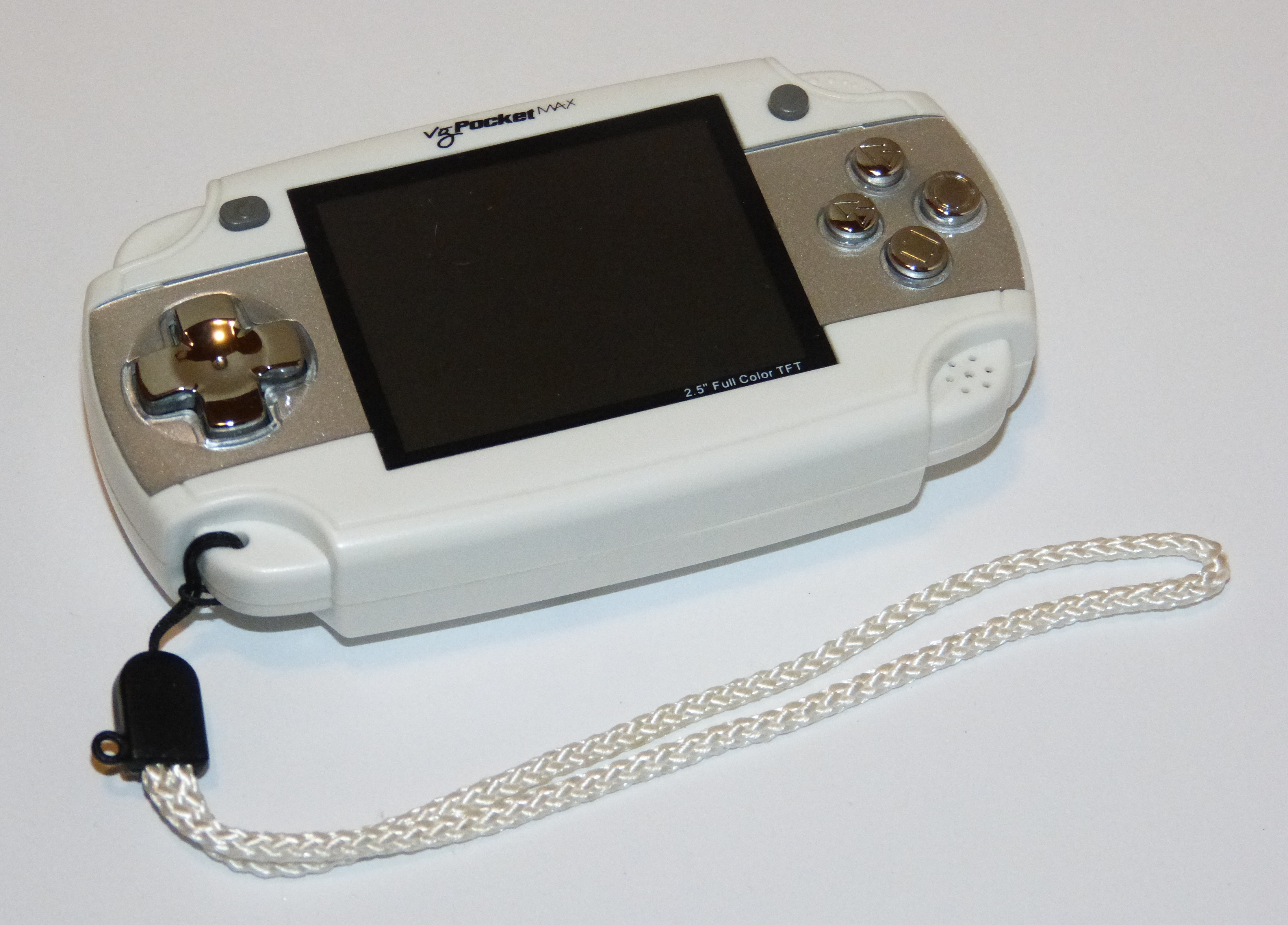 A VG Pocket Max gaming system